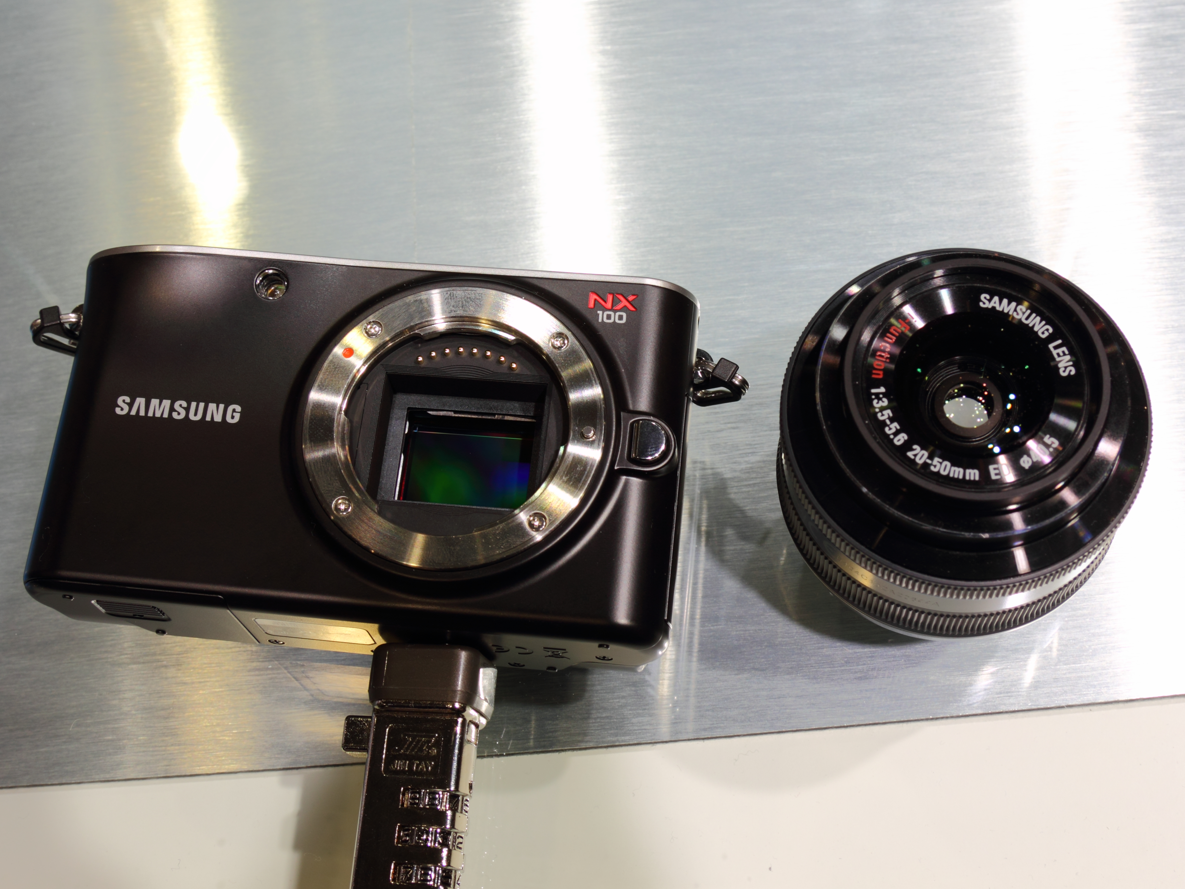 Samsung NX100, a mirrorless interchangeable lens camera